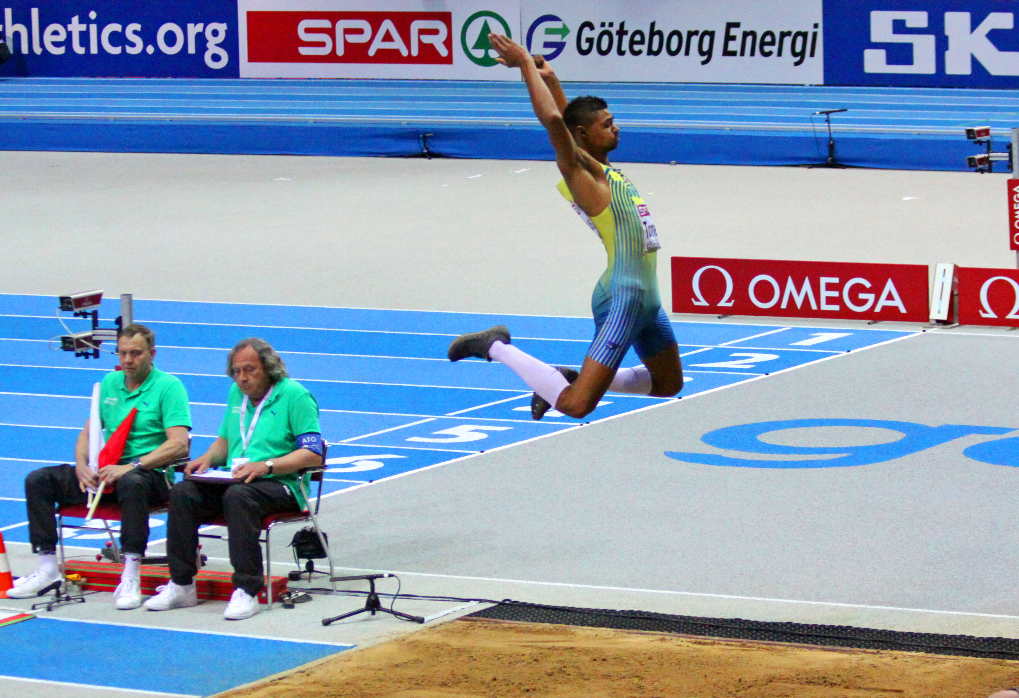 Michel Torneus of Sweden competing at the 2013 European Athletics Indoor Championships.